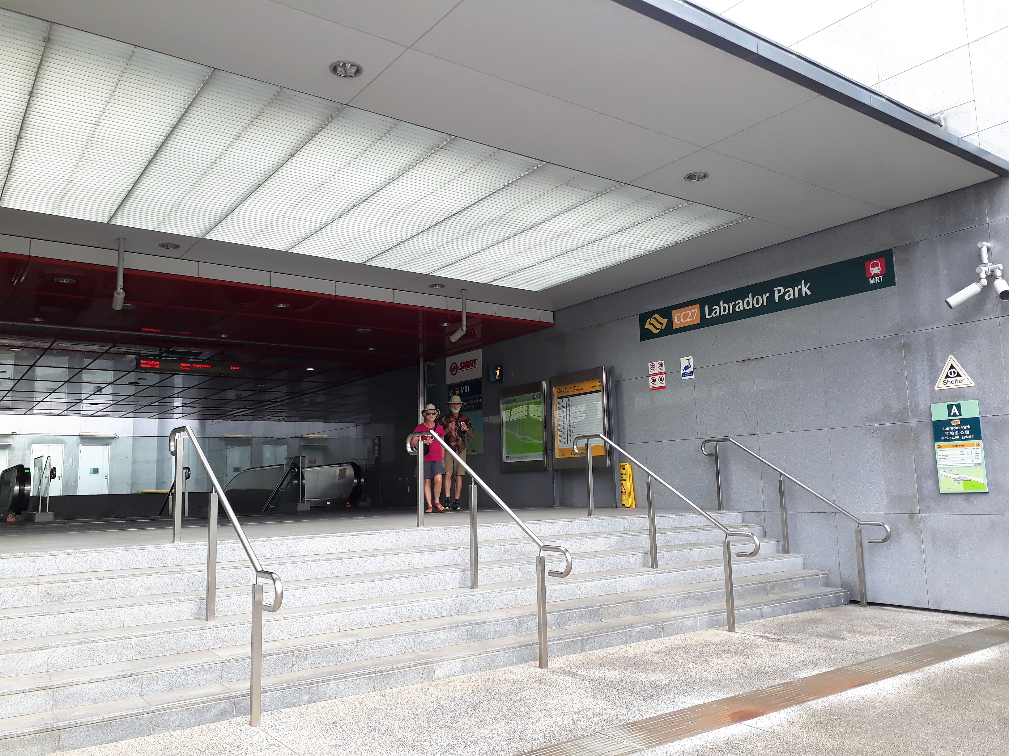 Exit A of Labrador Park